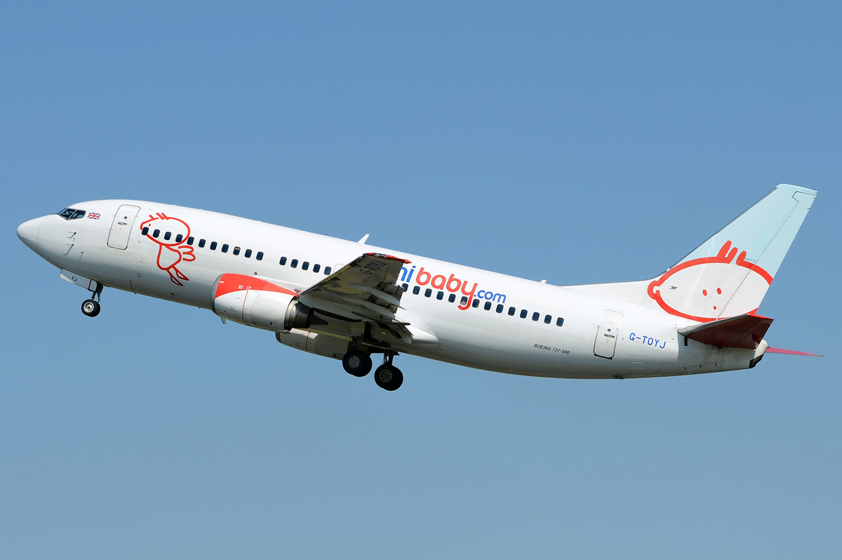 Bmibaby Boeing 737-36M (G-TOYJ) at Amsterdam - Schiphol Airport